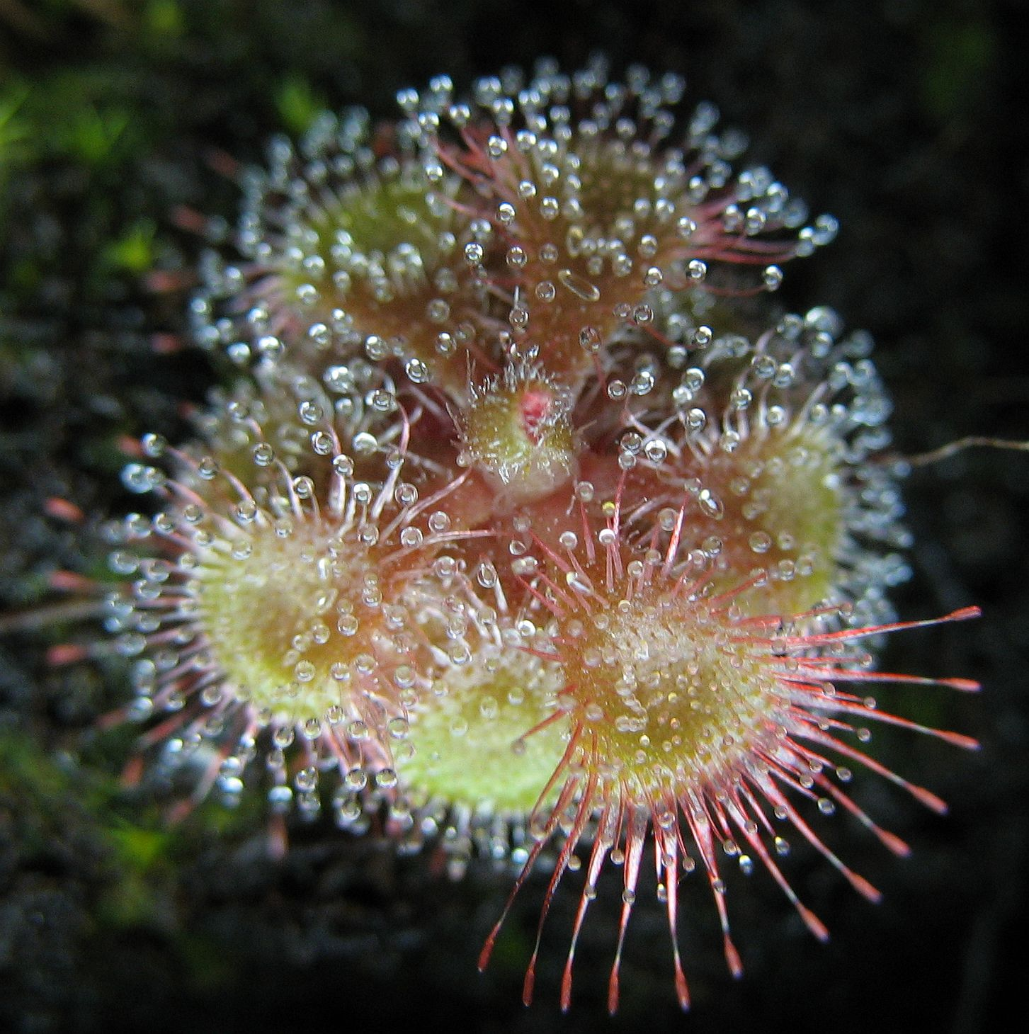 Habit of Drosera burmannii (Location type from Humpty Doo, Australia). Image has been used on Micronesian postage stamp.